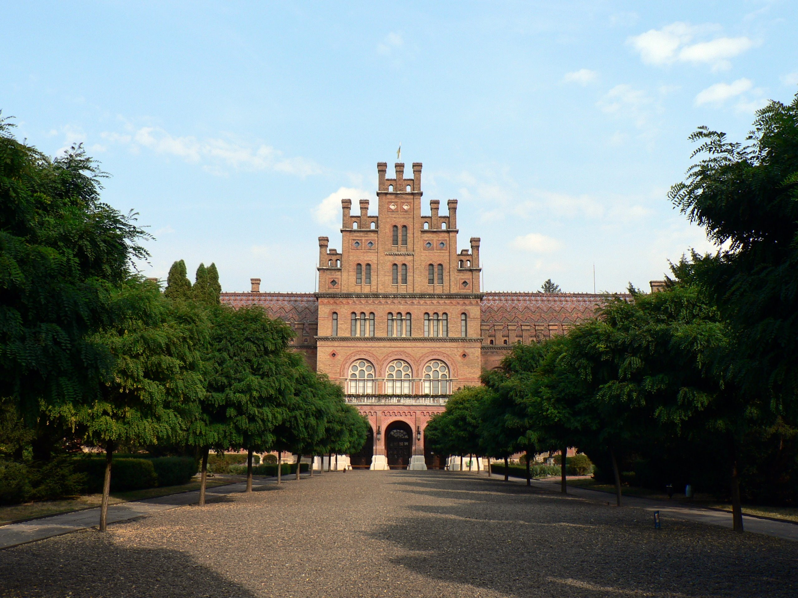 University of Chernivtsi